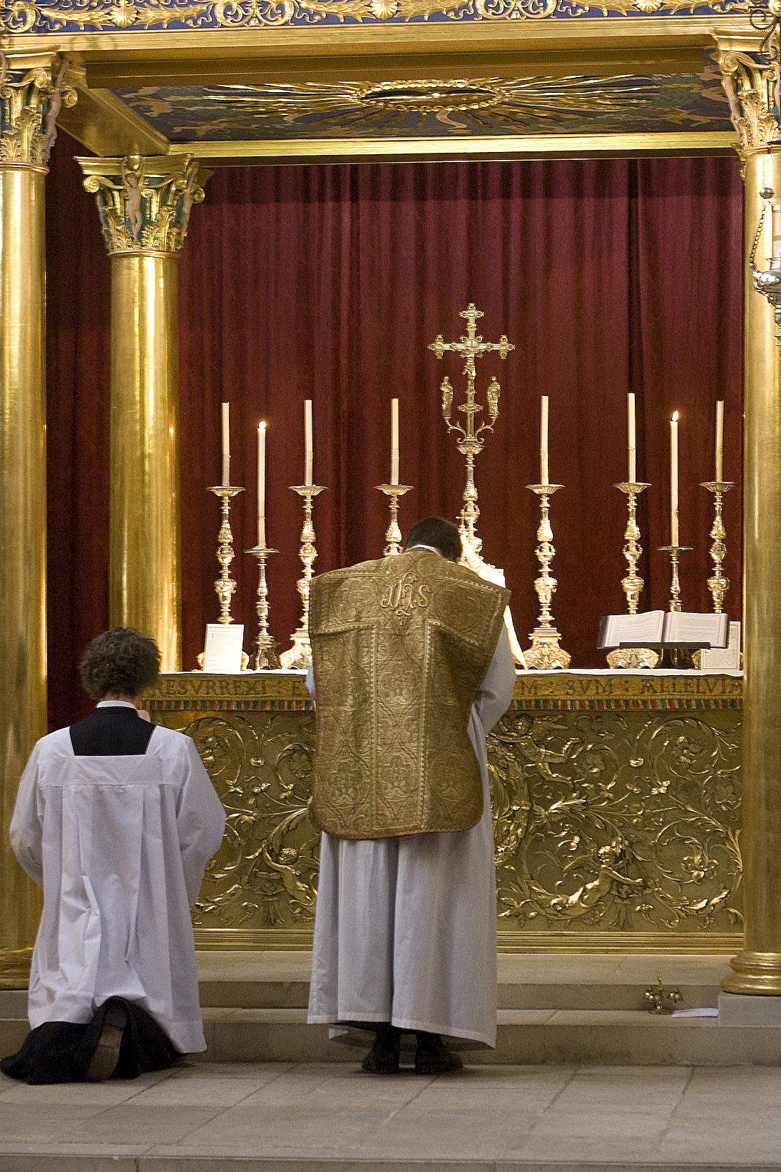 The celebrant's Confiteor during the first Extraordinary Form Mass at Pusey House